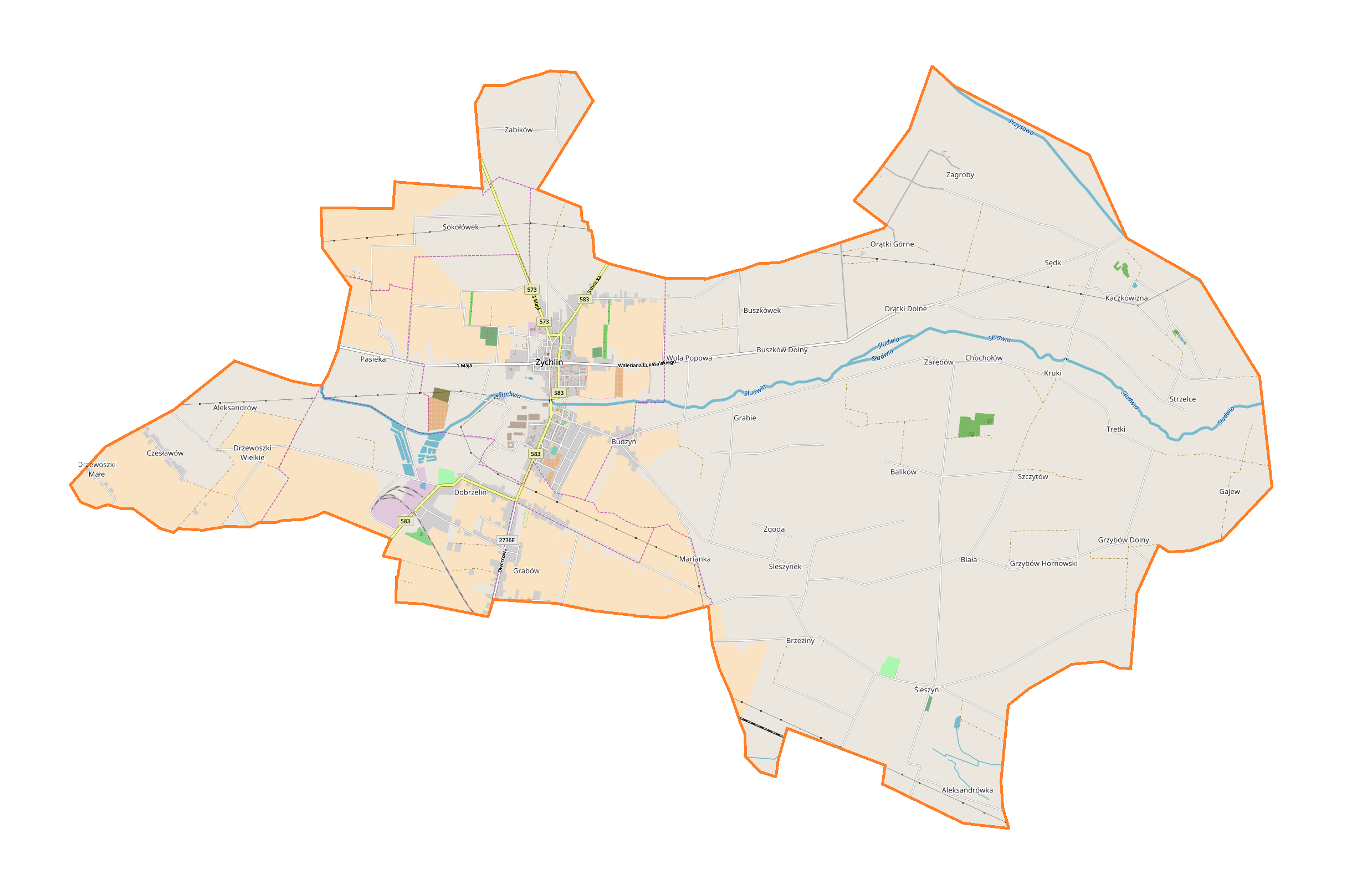 Location map